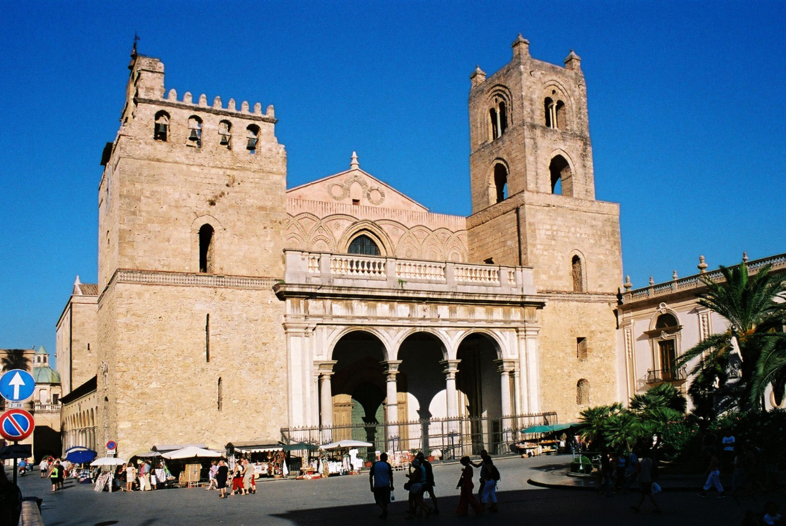 Cathedral of Monreale Front view